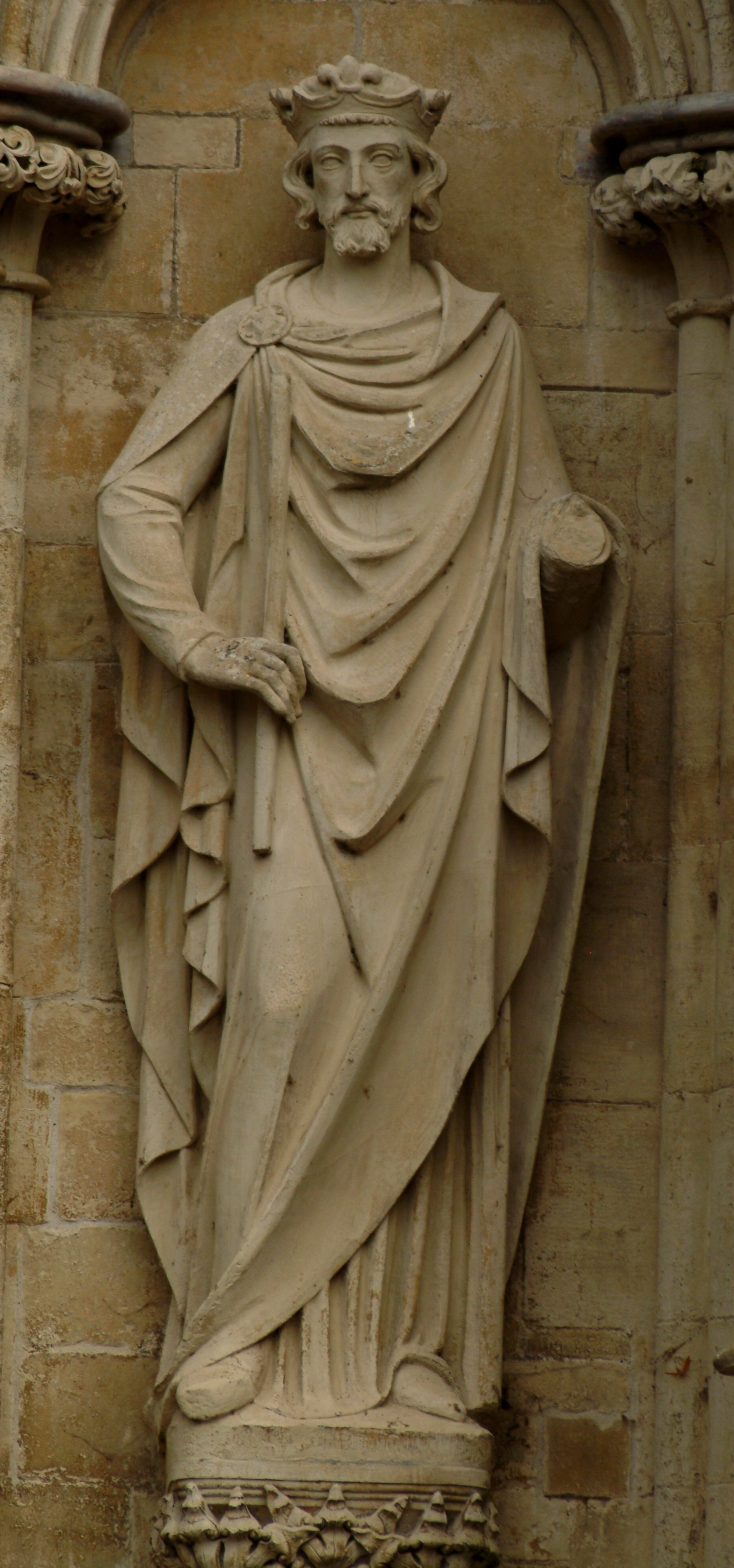 Statue of King Henry III on the West Front of Salisbury Cathedral, UK.